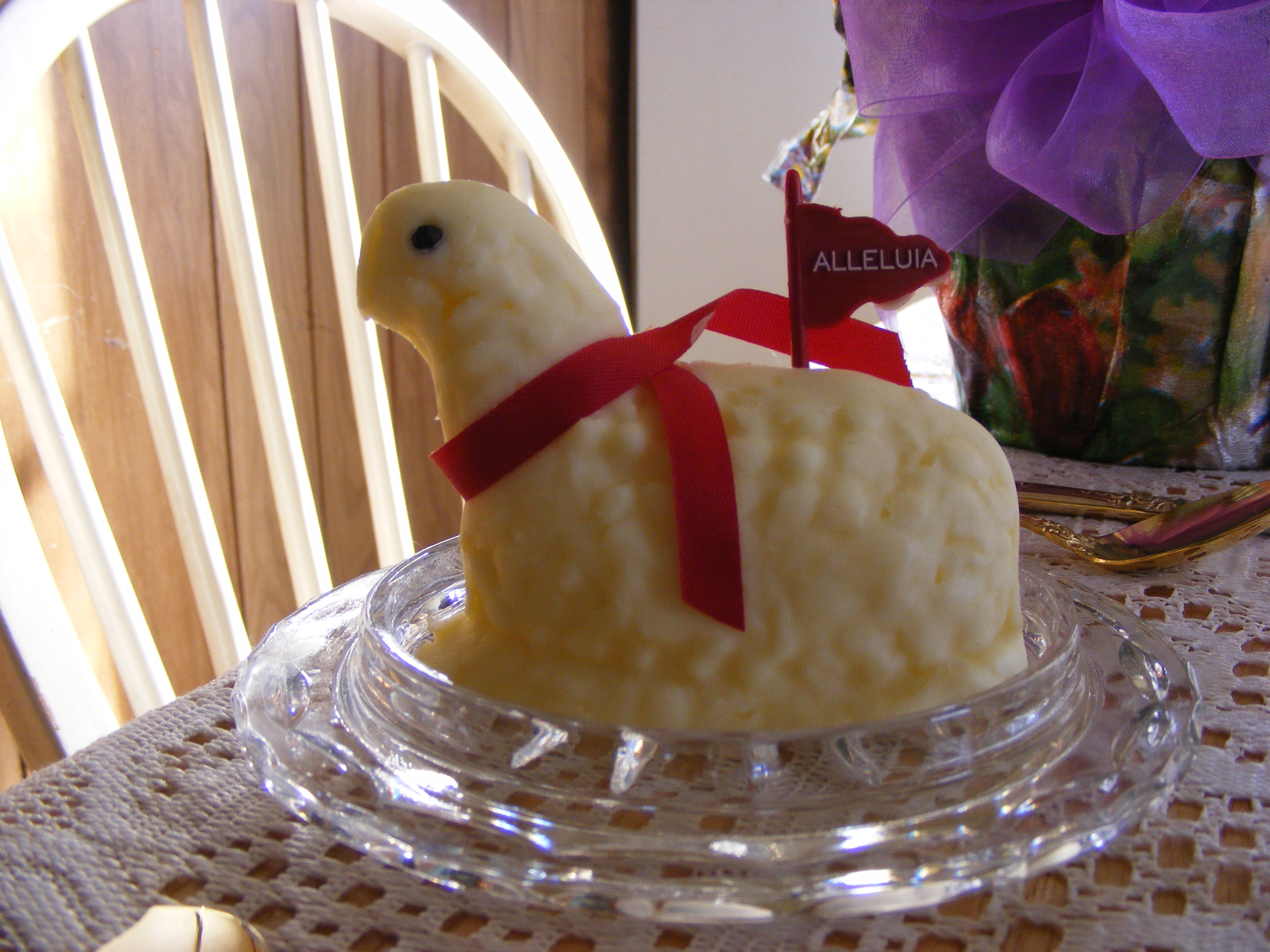 The lamb of god, in butter form.